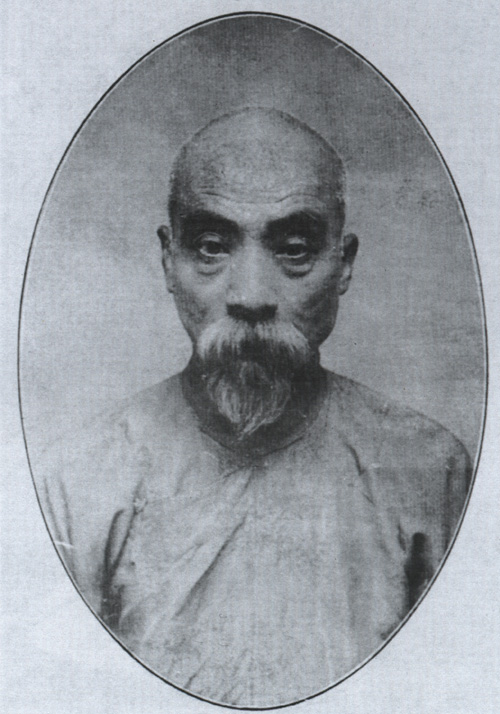 Gao Jinchang, politician of the Qing Dynasty.